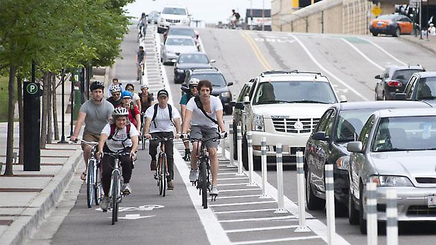 Separated Bicycle Facility (SBF) in Kinzie Street, Chicago, Il, USA.